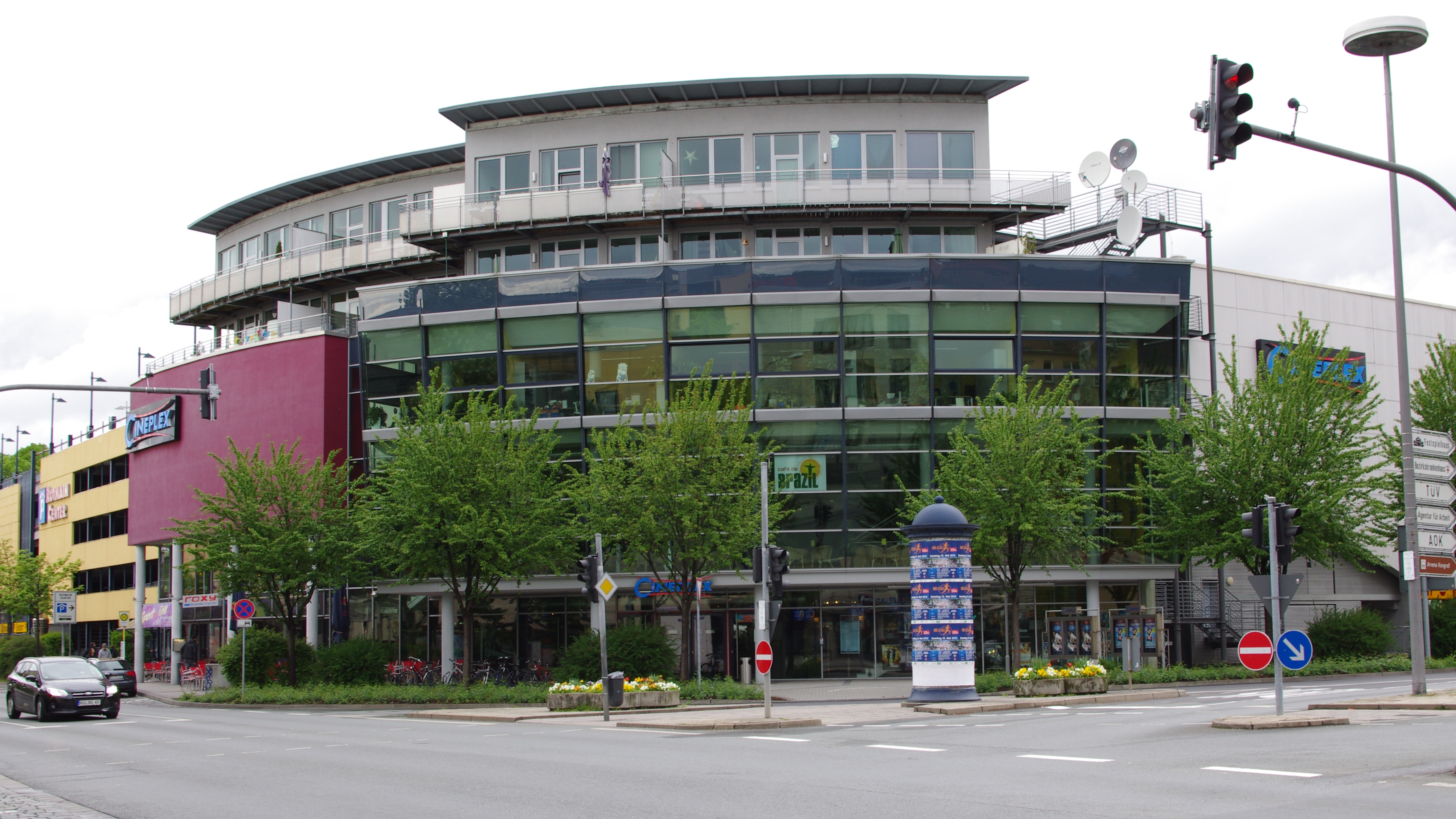 The Cineplex building in Bayreuth